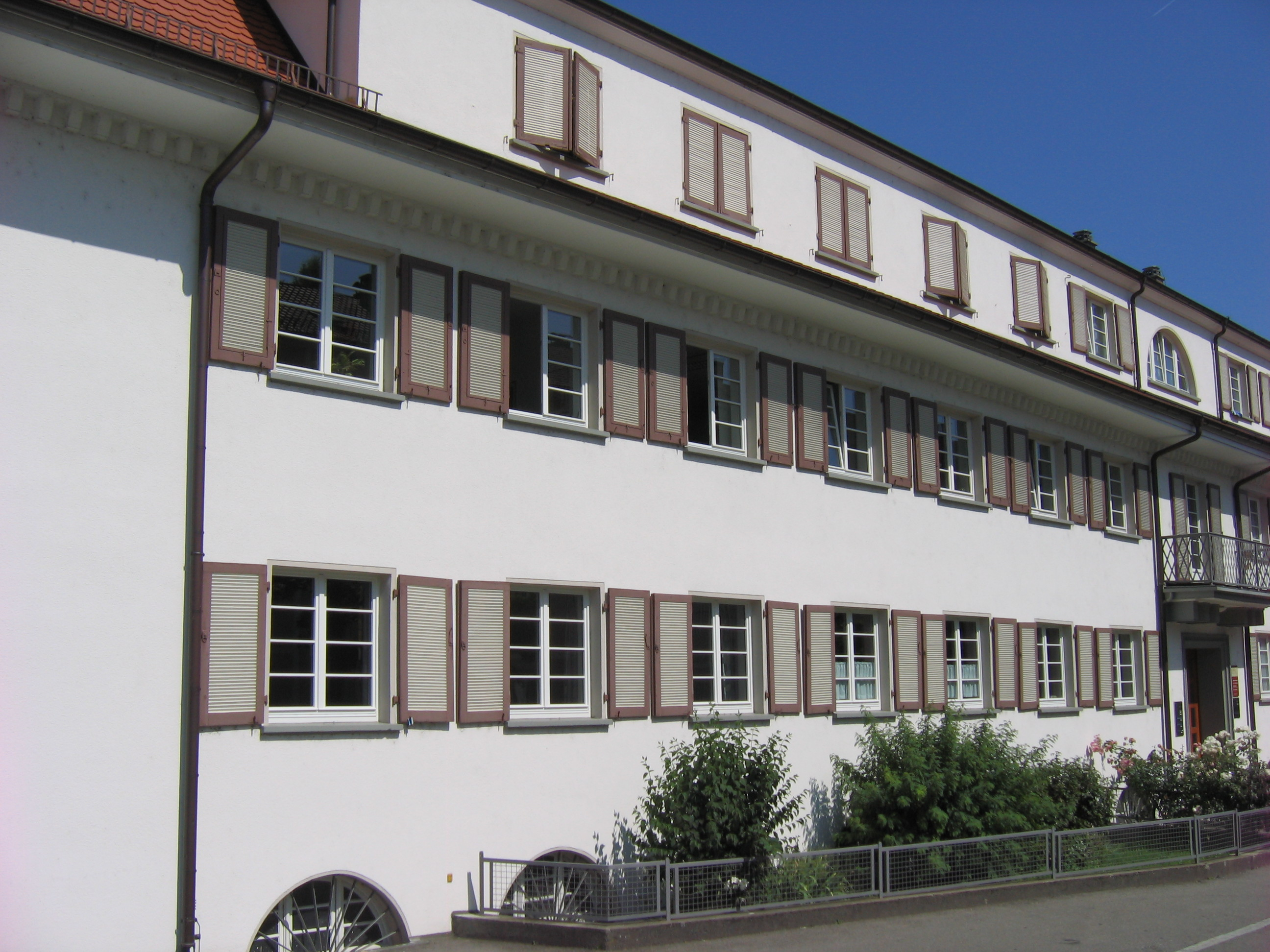 Germany - Baden-Württemberg - Bodenseekreis - Friedrichshafen: former residential building for single men, built by Zeppelin-Stiftung